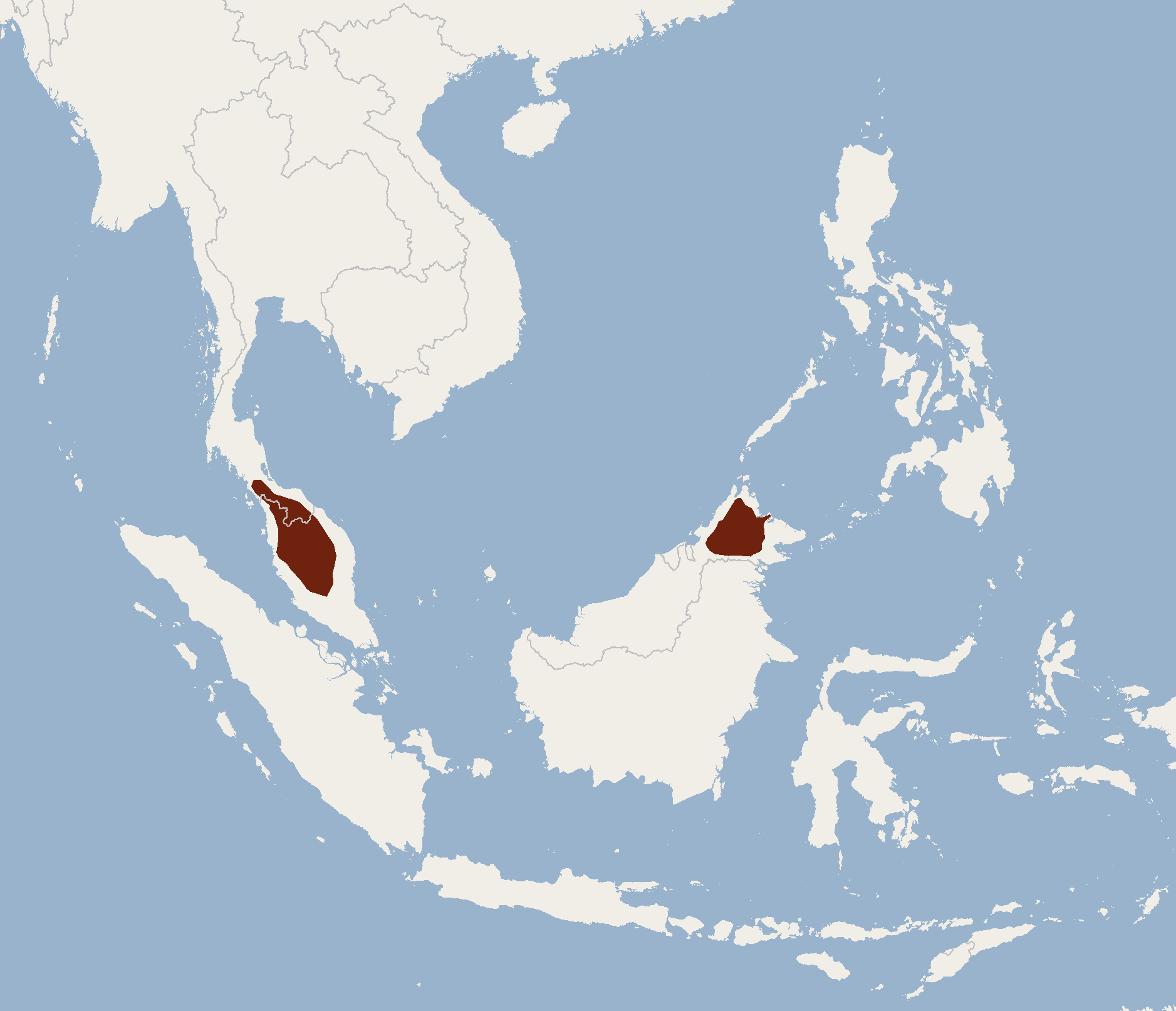 Geographical distribution of Murina aenea according to Francis, 2008